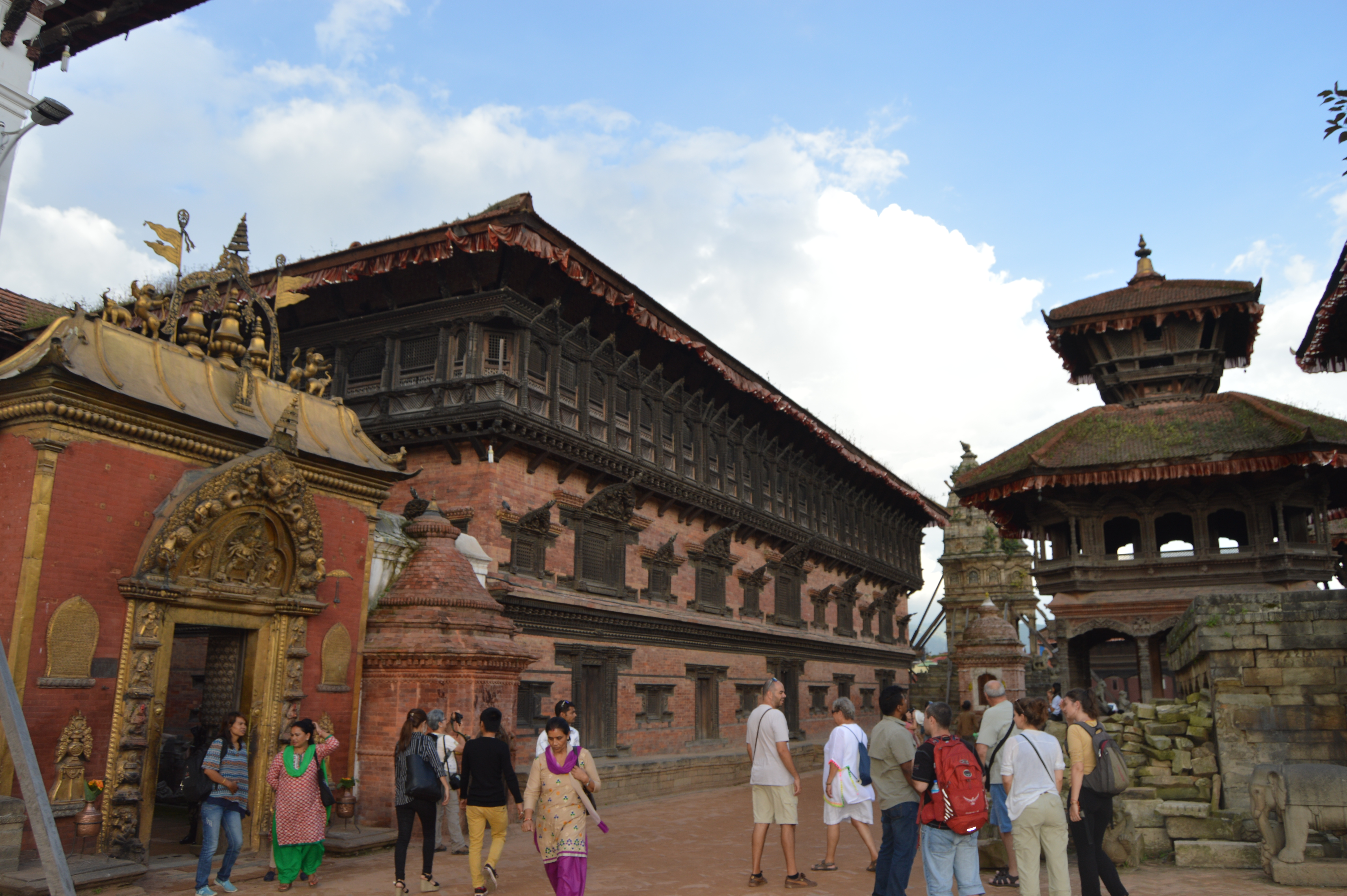 Bhaktapur Darbar